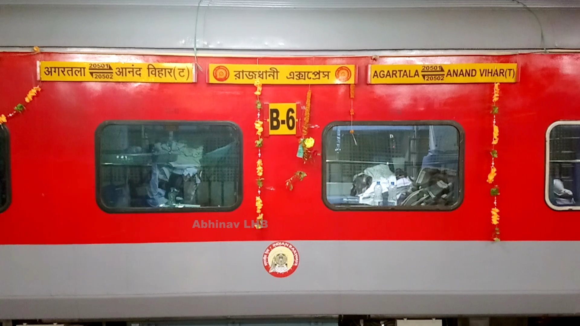 Inaugural Run of Agartala - Anand Vihar Rajdhani Express ! Complete Coverage from Guwahati !! Please do watch the video: Please watch the video for more details and complete description.